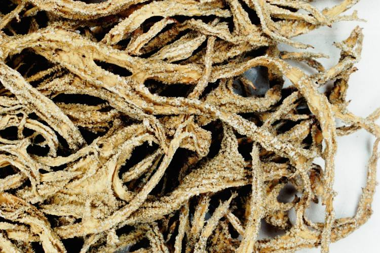 Evernia mesomorpha Nyl. (herbarium specimen showing coarse soredia on branches); growing on tree branch in Reese's Bog at the N. end of Burt Lake, Cheboygan County, Michigan, USA; collected and identified by Richard E. Riefner (No. 81-252, 25 Jun 1981); specimen is in the Lichen Herbarium of the New York Botanical Garden.